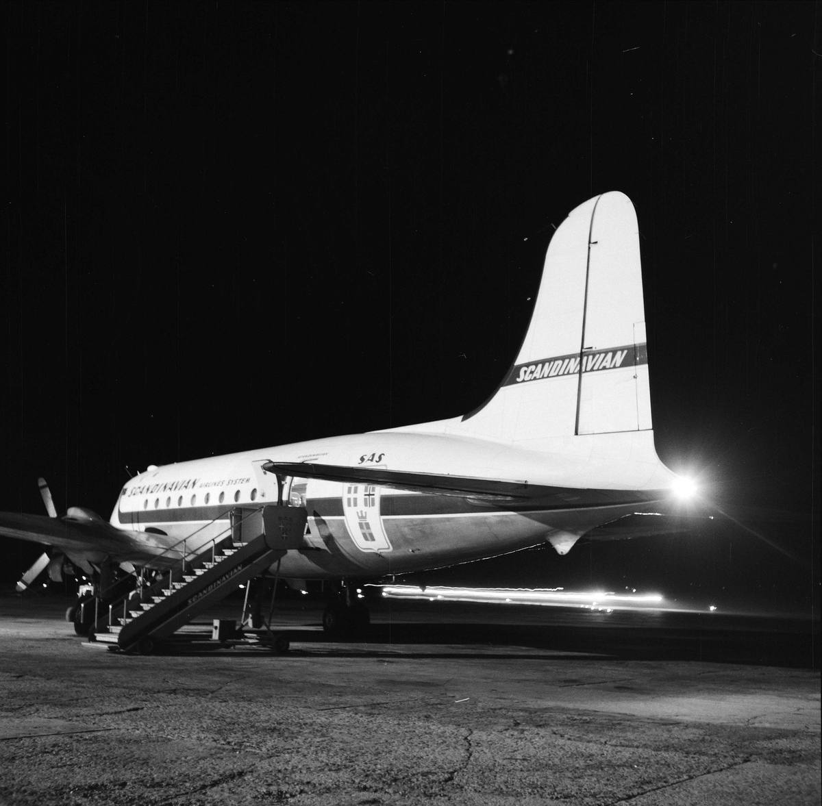 Scandinavian Airlines System (SAS) Douglas DC-4 Dan Viking OY-DFI at Oslo Airport, Fornebu awaiting departure for Bodø